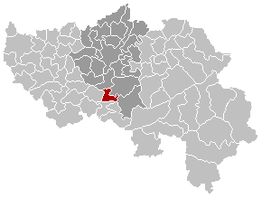 Map, municipality belgium Comblain-au-Pont